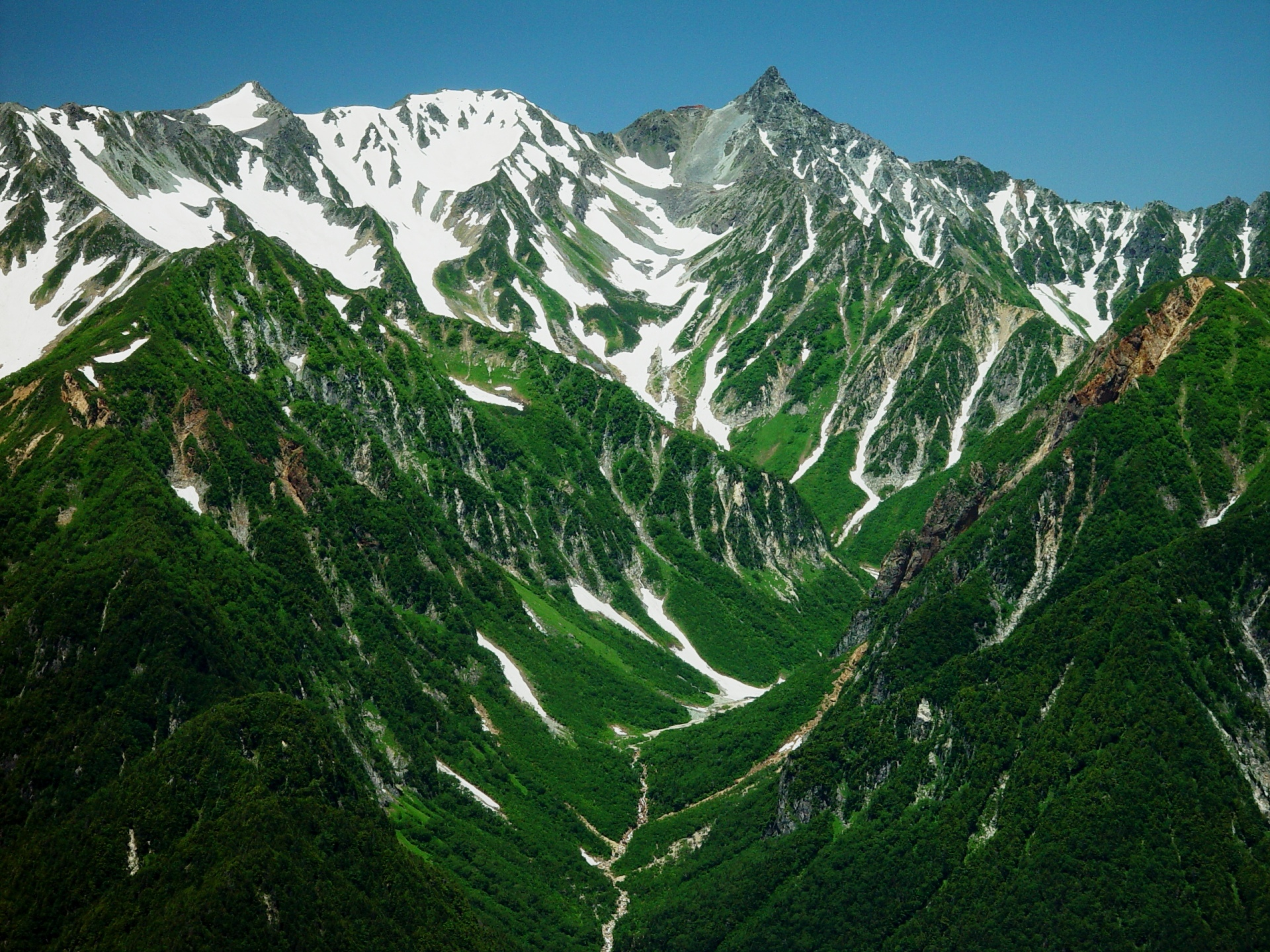 Mount Yari from Mount Chō